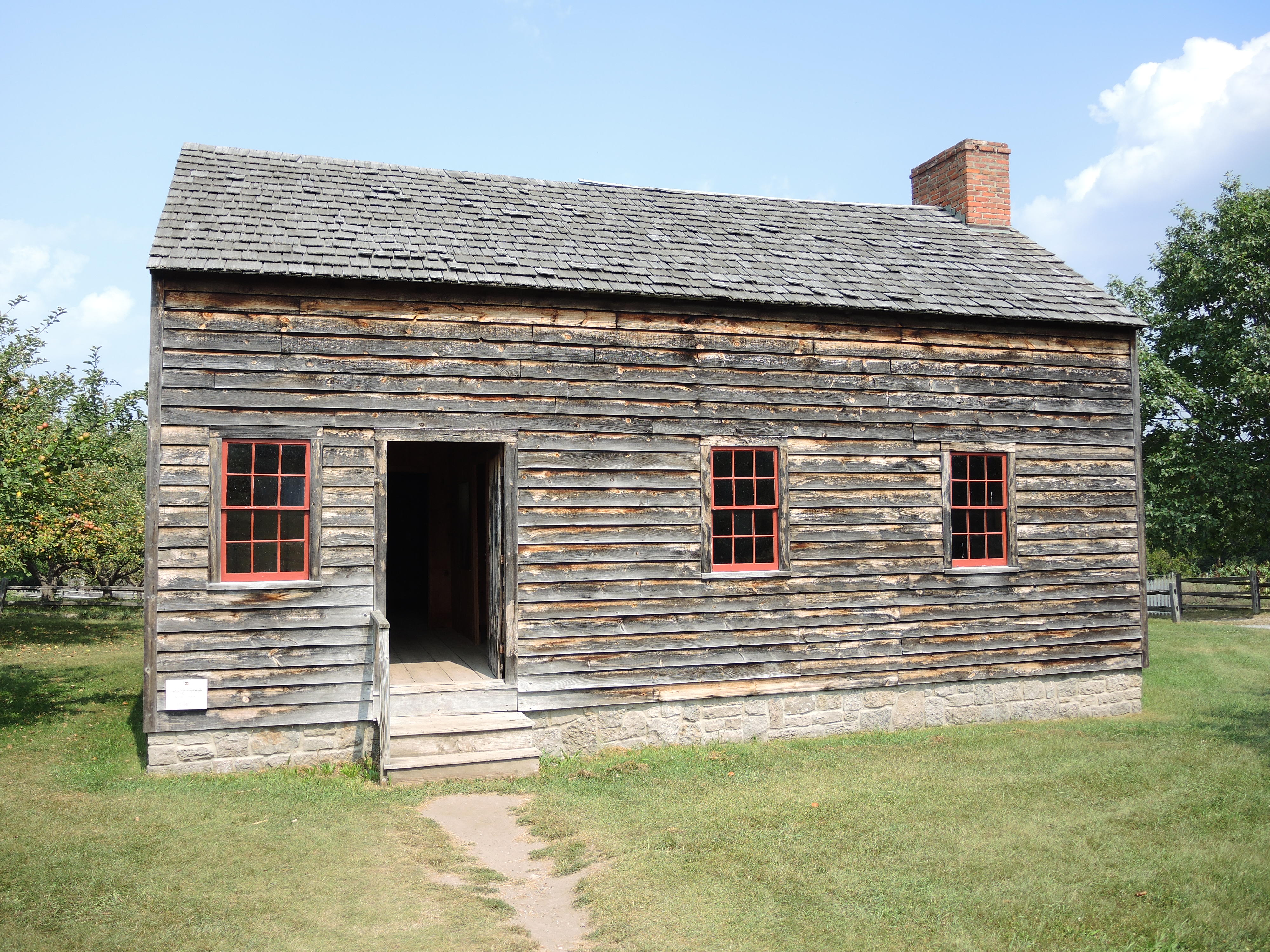 Nathaniel Rochester house originally sited in Dansville, New York, now at the Genesee Country Village and Museum